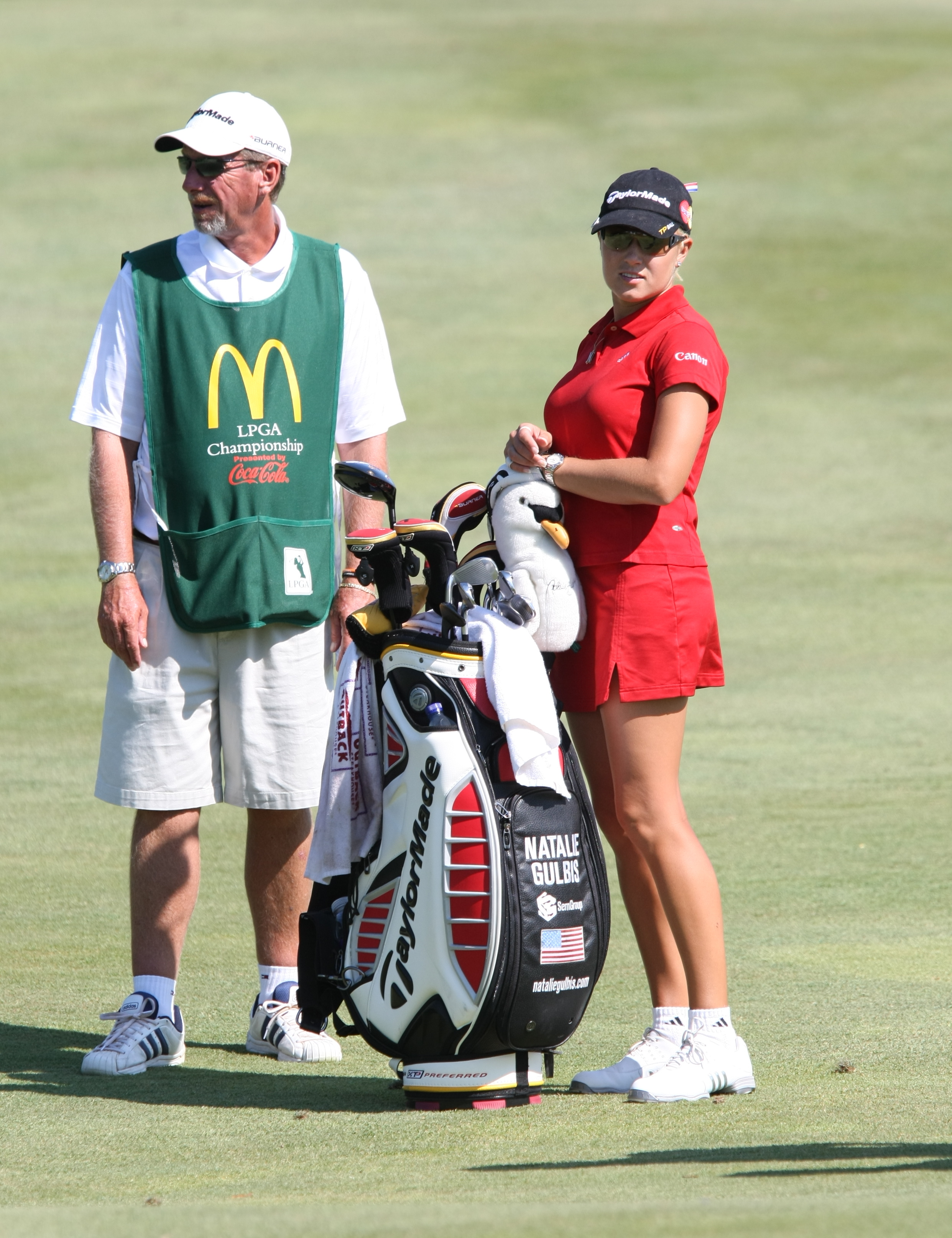 HAVRE DE GRACE, MD - JUNE 02: Natalie Gulbis (USA) with her caddie Greg Sheridan during pro-am before 2008 LPGA Championship held at Bulle Rock Golf Course, on June 2, 2008 in Havre de Grace, Maryland. (Photo by Keith Allison)